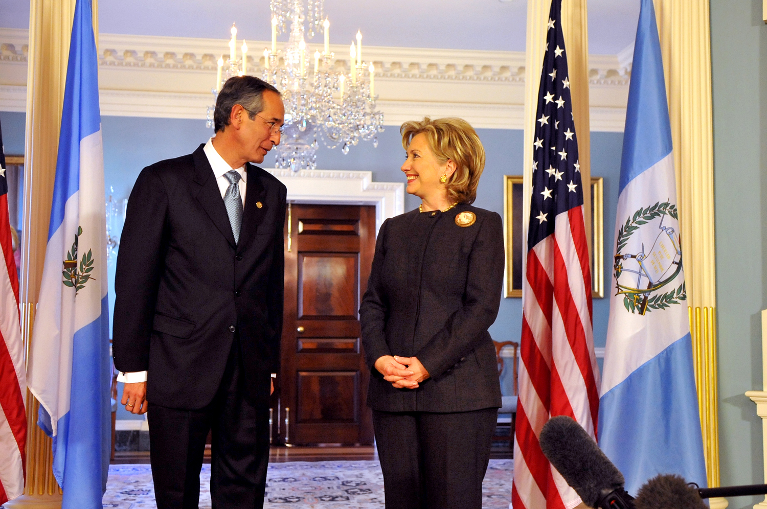 U.S. Secretary of State Hillary Rodham Clinton meets with Guatemalan President Álvaro Colom at the U.S. Department of State in Washington, DC February 18, 2010.